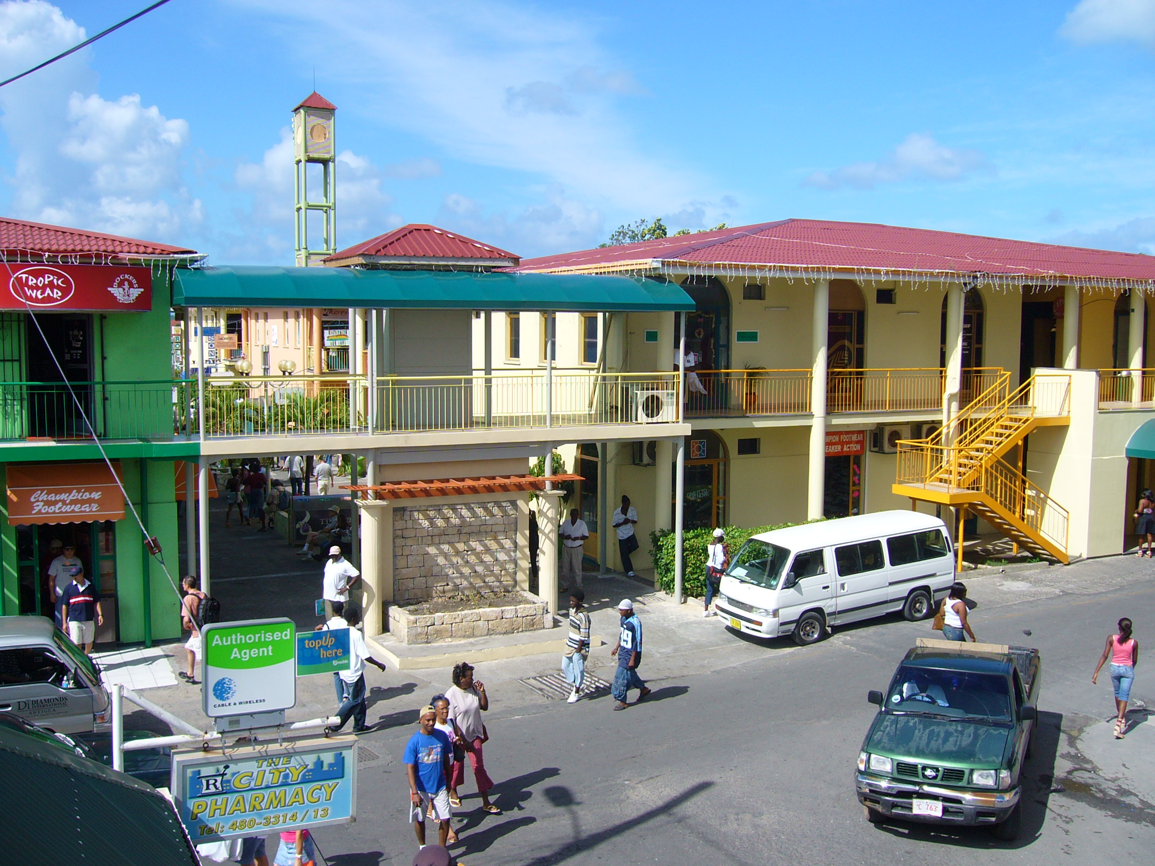 Heritage Quay, St. John's, Antigua and Barbuda